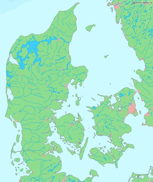 Map of Denmark. Bounding box West 7.9°, South 54.3°, East 13.2°, North 57.8°. Center at 56°03′00″N 10°33′00″E / 56.05000°N 10.55000°E.